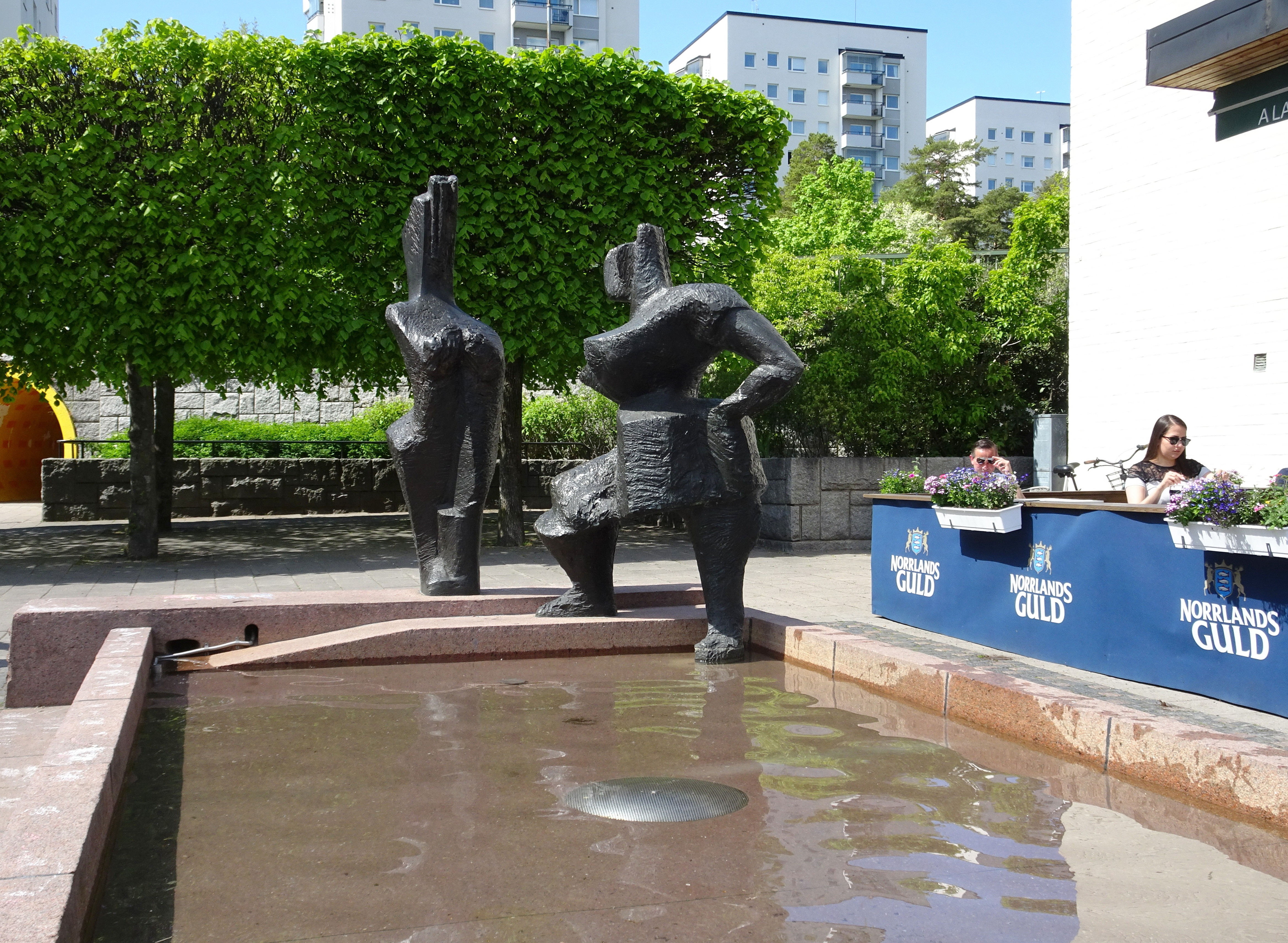 The women (1967) by Willy Gordon, Fruängen Centre Square, Stockholm. Bronce height 200 cm.